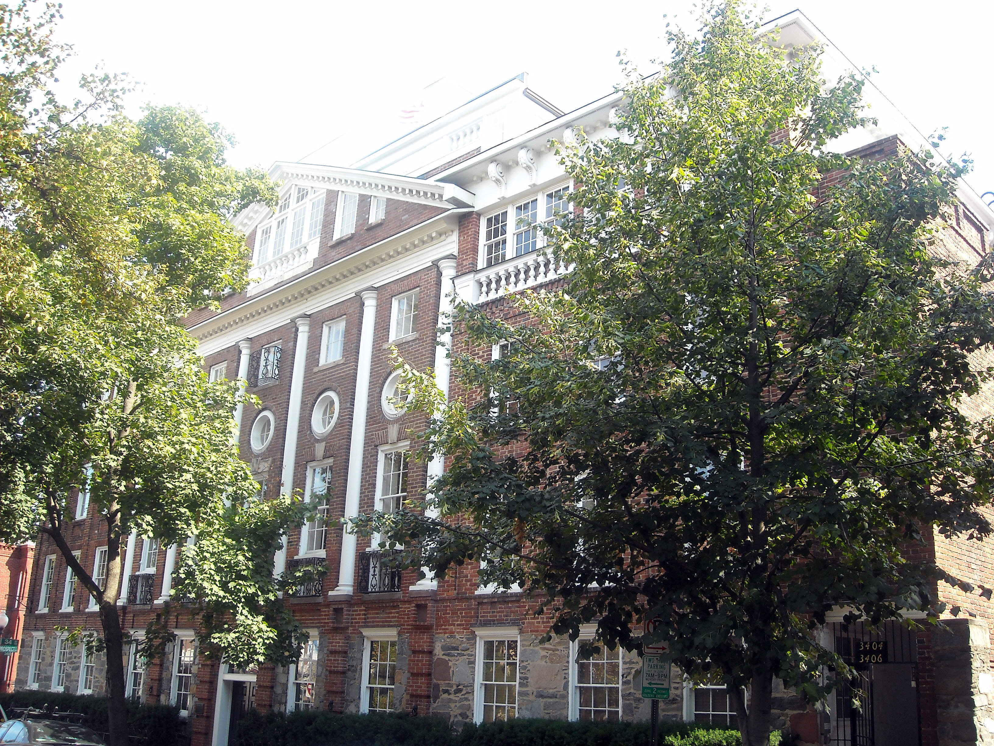 Halcyon House, also known as the Benjamin Stoddert House, at 3400 Prospect Street in the Georgetown neighborhood of Washington, D.C. The building is listed on the National Register of Historic Places.